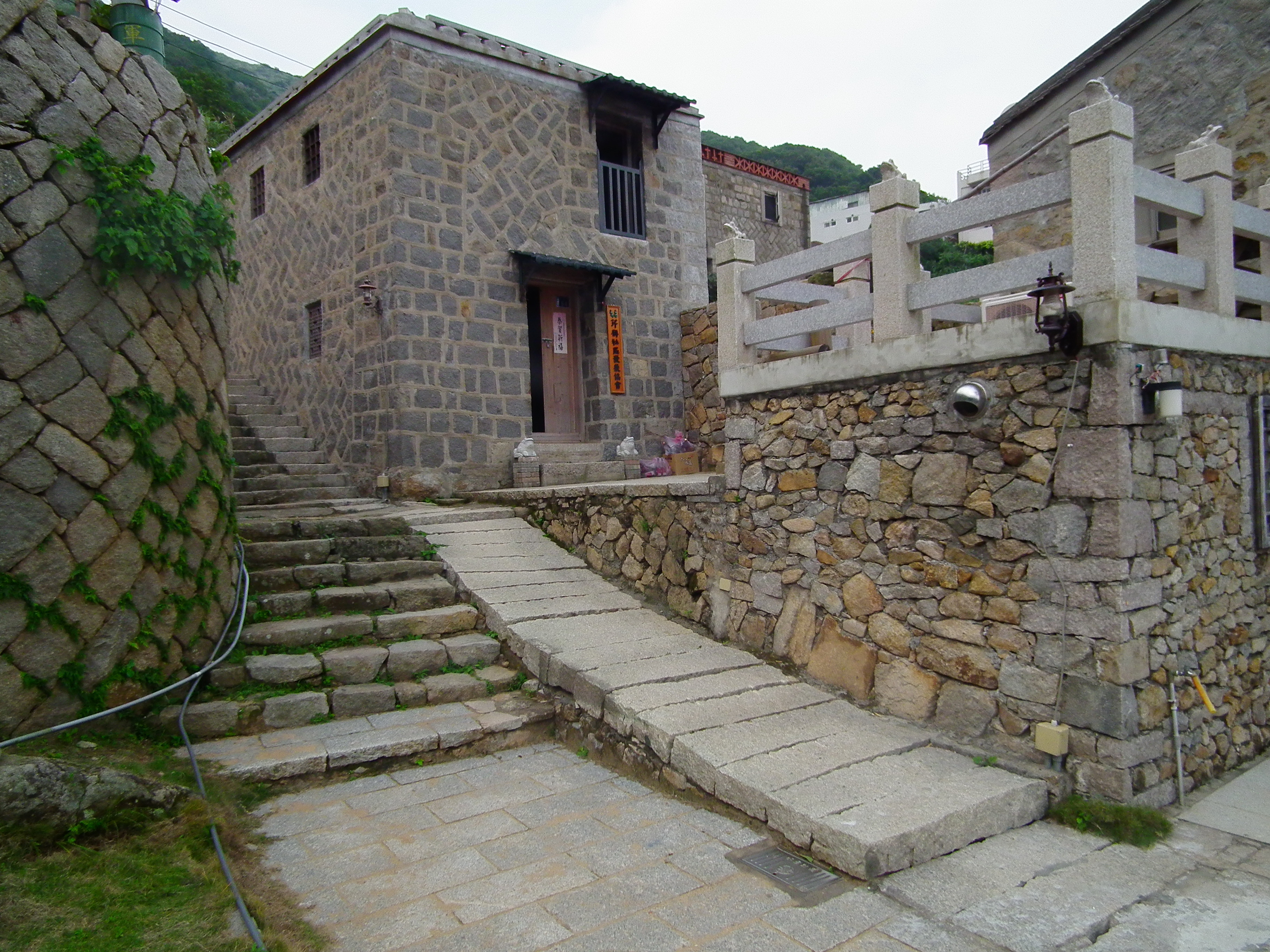 芹壁社區發展協會 Qinbi Community Development Association